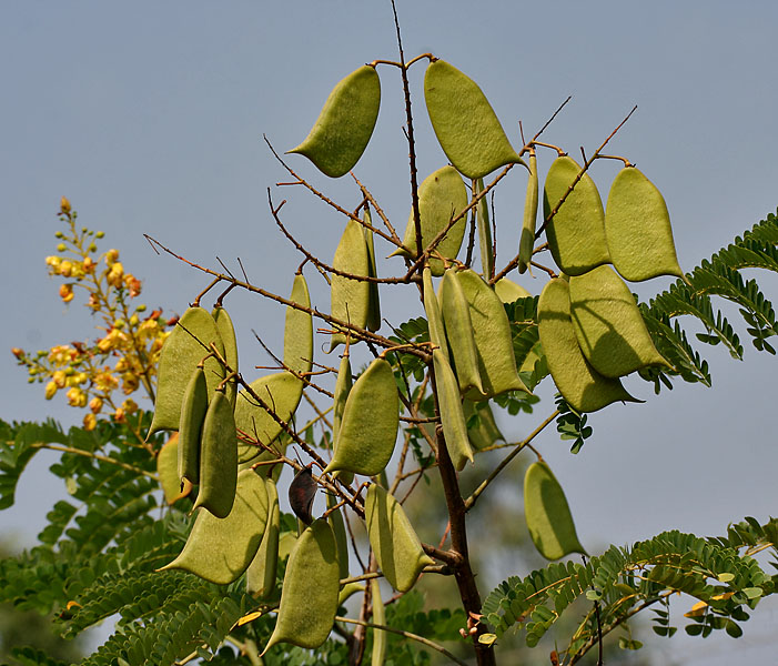 Caesalpinia sappan L. (syn. Biancaea sappan (L.)Tod.)- Sappanwood, Sapanwood, Bukkum-wood, Bois Sappan, Gangoor, Caesalpinia Sappan, Patamg, Bakam, Suou (Japanese); Burmese (teing-nyet); English (false sandalwood, Indian brazilwood, Indian redwood); Filipino (sapang, sibukao); French (bois de sappan,sappan); Hindi (bokmo, bakan, patungam, vakum, vakam, patunga); Indonesian (soga jawa, secang, kayu sekang, kayu cang); Javanese (soga jawa); Lao (Sino-Tibetan) (fang deeng, faang); Malay (sepang); Thai (ngaai, faang, fang som); Trade name (sappan lignum, brazilin, sappanwood); Vietnamese (tô môc,hang nhuôm)- in Herbal Garden, in Rangareddy district of Andhra Pradesh, India.